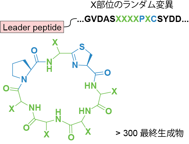 Example 8 of combinatorial biosynthesis (Japanese).